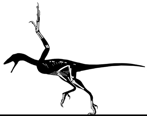 Skeletal reconstruction of Ostromia.